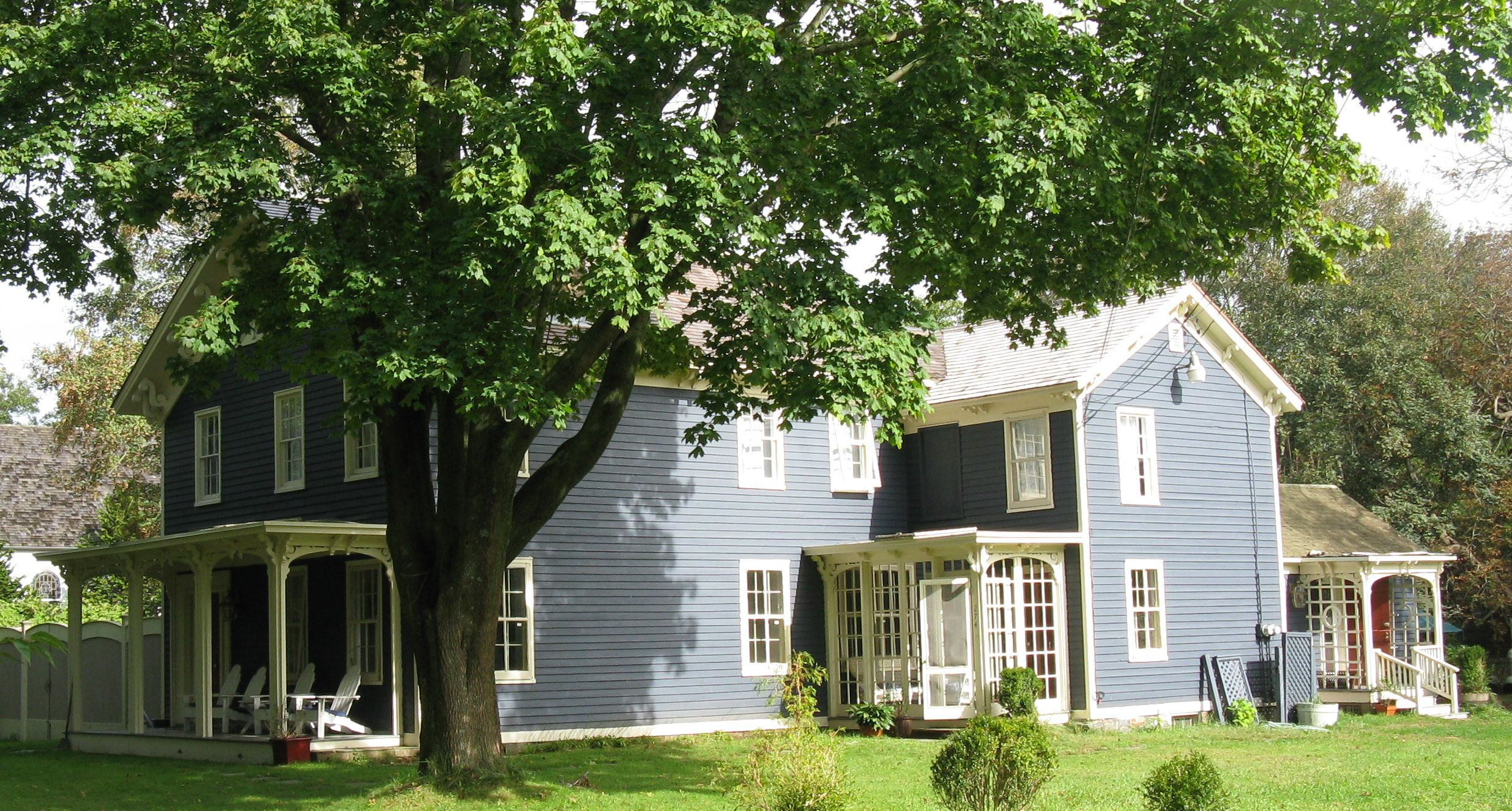 Pleasant House